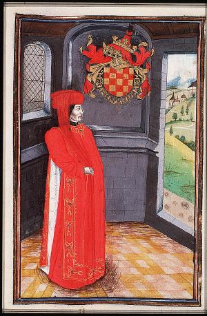 Statuts, Ordonnances et Armorial de l'Ordre de la Toison d'Or (Statutes, Ordonnances and armorial of the Order of the Golden Fleece) Place of origin, date: Southern Netherlands; 1473. Added sections: Southern Netherlands; 1478 or shortly after and 1491 or shortly after Material: Vellum, ff. 86, 249x187 (167x106) mm, 23 lines, littera cursiva (lettre bourguignonne). French. Binding: 18th-century brown leather Decoration: 1 full-page miniature (170x115 mm) with border decoration; 92 miniatures (185/155x120/100 mm); 1 historiated initial (80x90 mm) with border decoration; decorated initials with border decoration (ff., Added section: miniatures ; 4 drawings for miniatures (not finished) Provenance: Presented in 1473 by Gilles Gobet, King of Arms of the Order of the Golden Fleece, to Charles the Bold, Duke of Burgundy and the other Knights during the Chapter of the Order held at Valenciennes; Treasure of the Golden Fleece, Brussls; taken away by the Treasurer C.-F. Humyn (d. 1735) or his daughter C.Ch. de Corte; by legacy to her daughter M.-L. de Corte, wife of Ph.-E. de Poederlé; purchased in 1781 at the Poederlé sale by G.-J- Gérard of Brussels; acquired in 1832 as part of the Gérard collection (no. A 27)